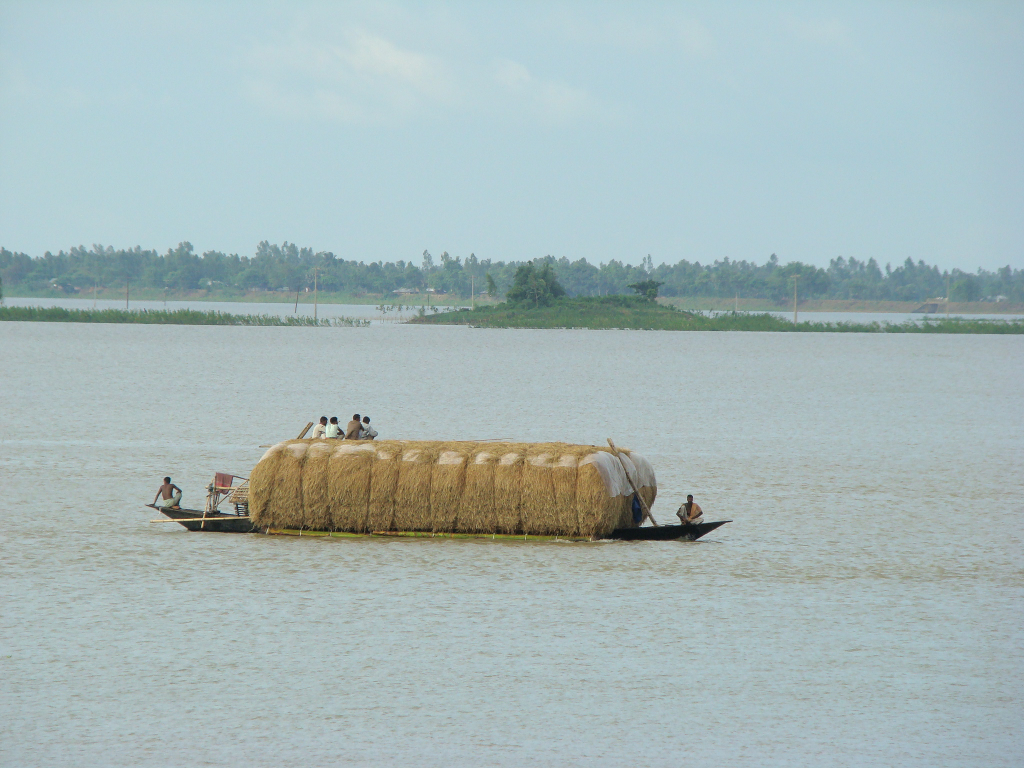 Chalan Beel Natore Bangladesh